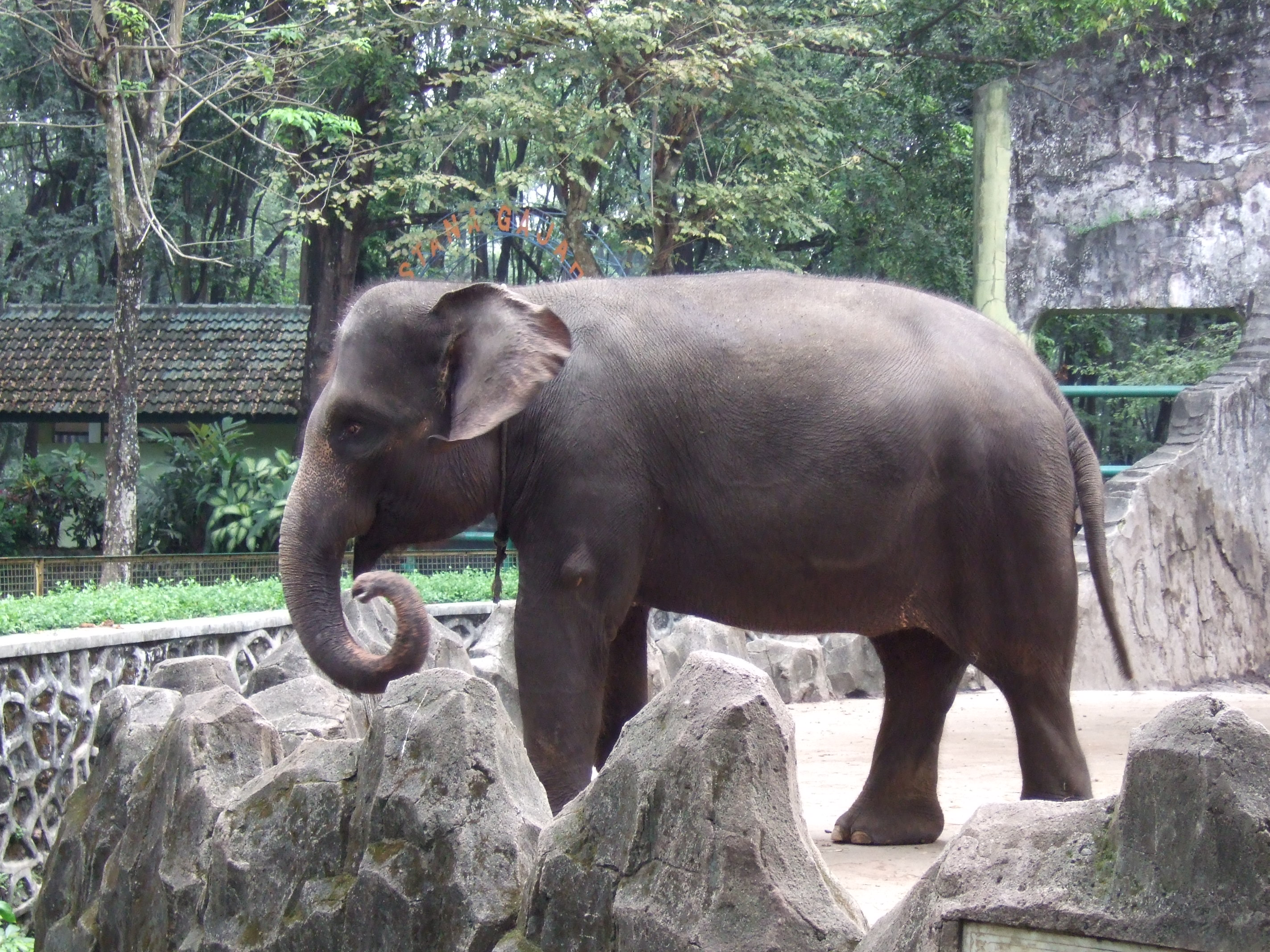 Sumatran Elephant, Elephas maximus sumatranus, Ragunan Zoo, Jakarta, Indonesia